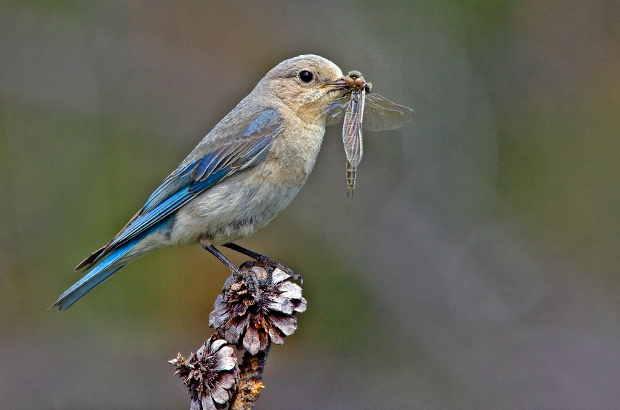 Mountain Bluebird (Female) , Side Road, Tunkwa Lake Campground, Near Logan Lake, British Columbia